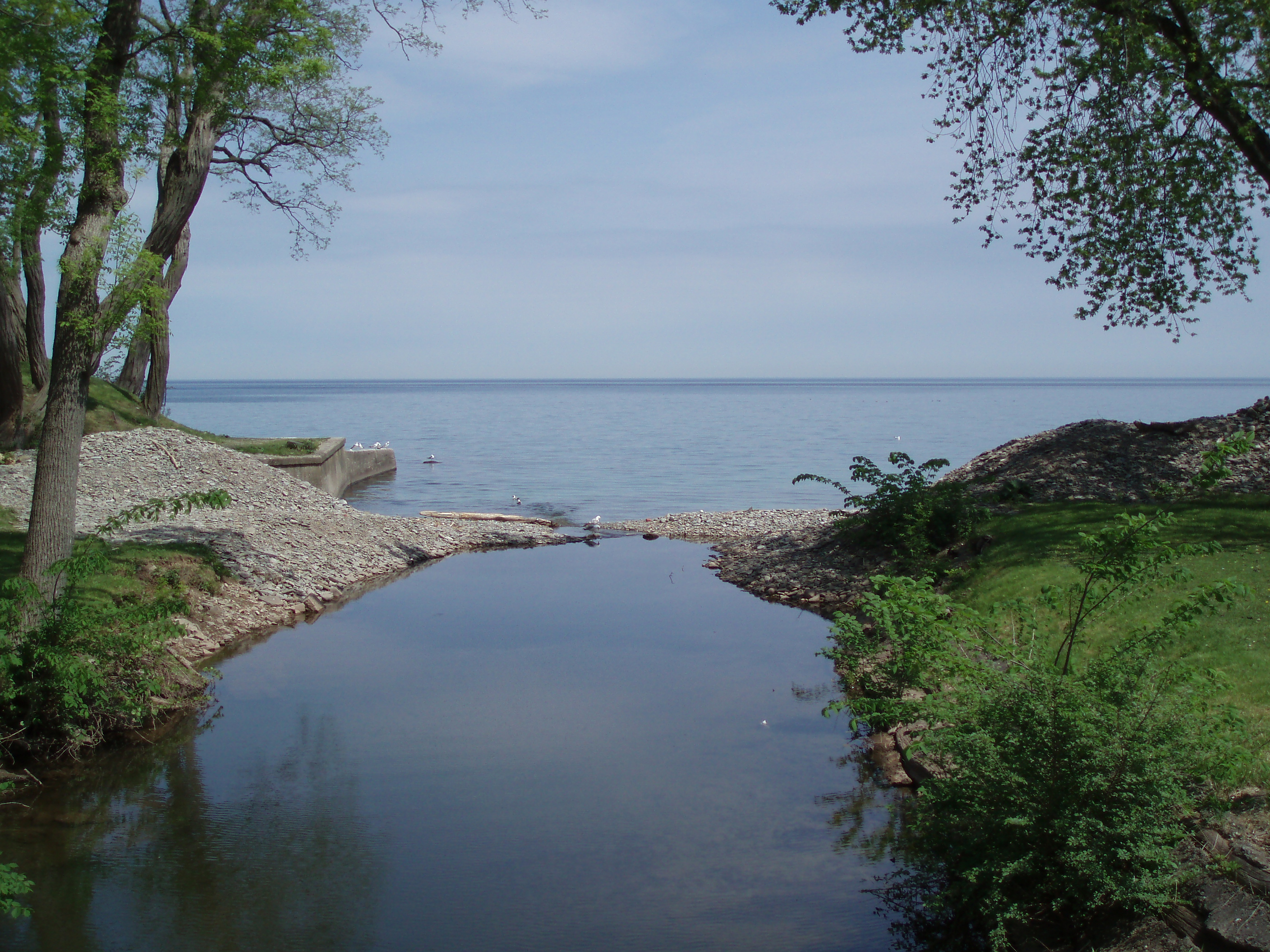 Appleby College